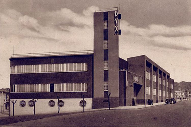 Old Postcard, more than 70 years old